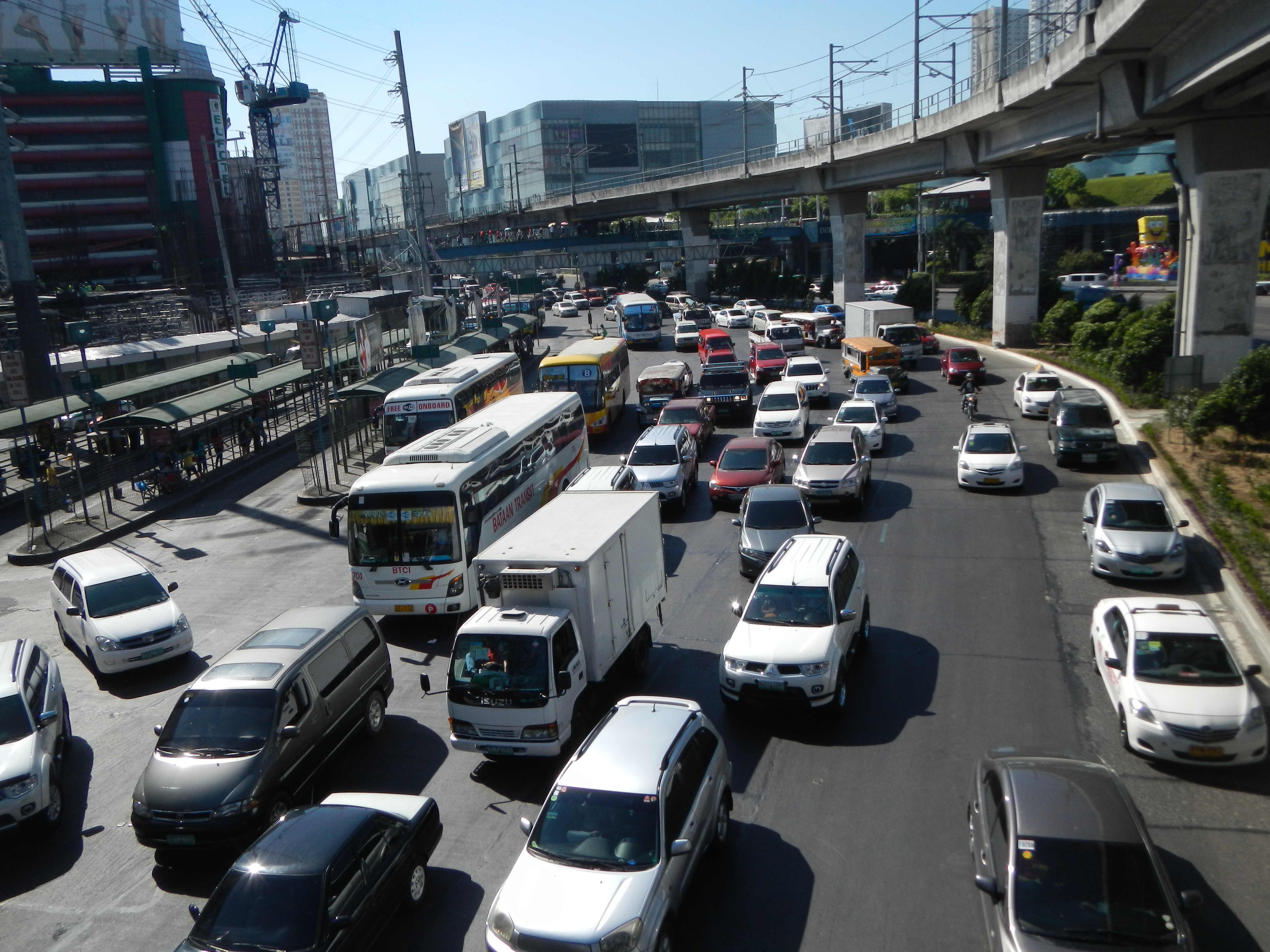 EDSA[1]SM City North EDSA, Tri No Ma Malls, North Triangle of the Triangle Park North Avenue (North) and West Avenue (South)[2] - View from the Foot Bridge